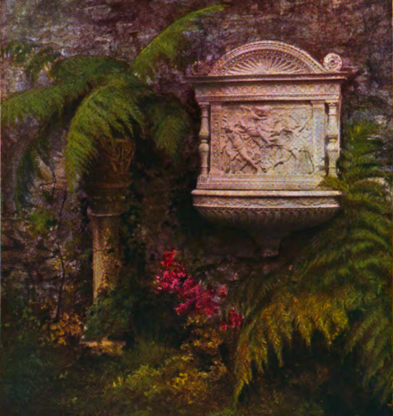 Phebe Westcott Humphreys' 1914 publication, The Practical Book of Garden Architecture, showed a wall-mounted fountain surrounded by ferns as a suggested landscape feature.